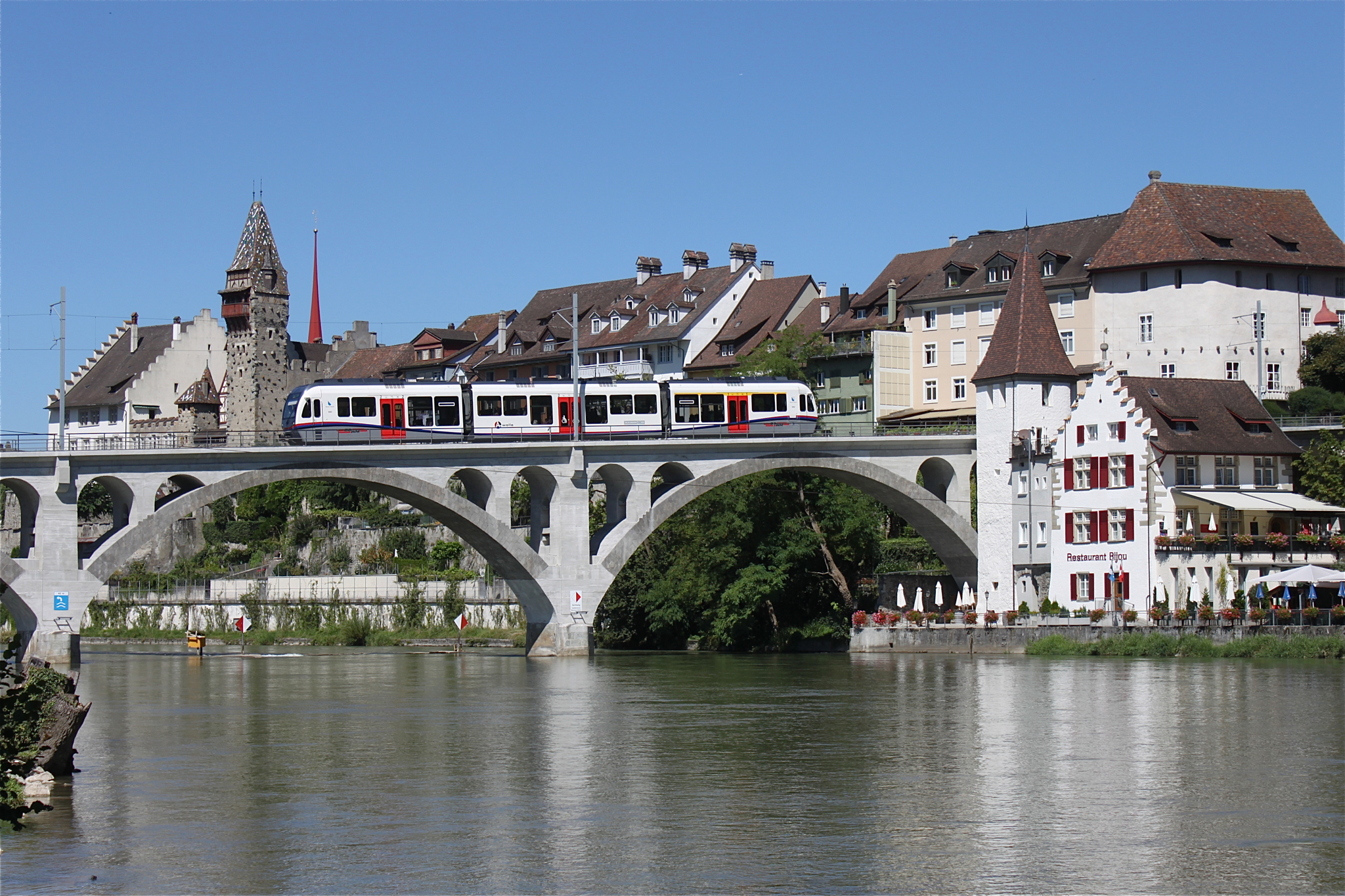 BDWM ABe 4/8 5002 crosses the river Reuss while en route from Dietikon to Wohlen as S17 540.